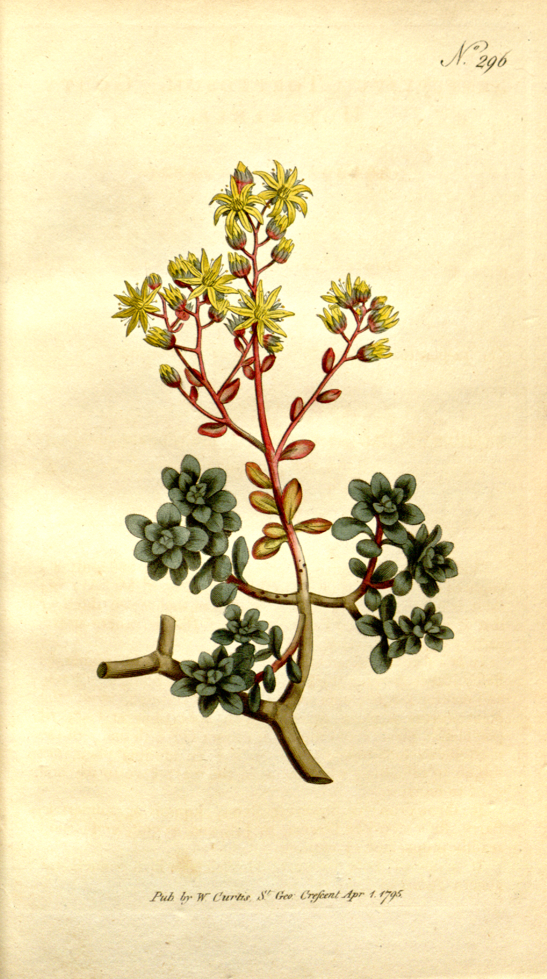 This is a plate from The Botanical Magazine, Volume 9.